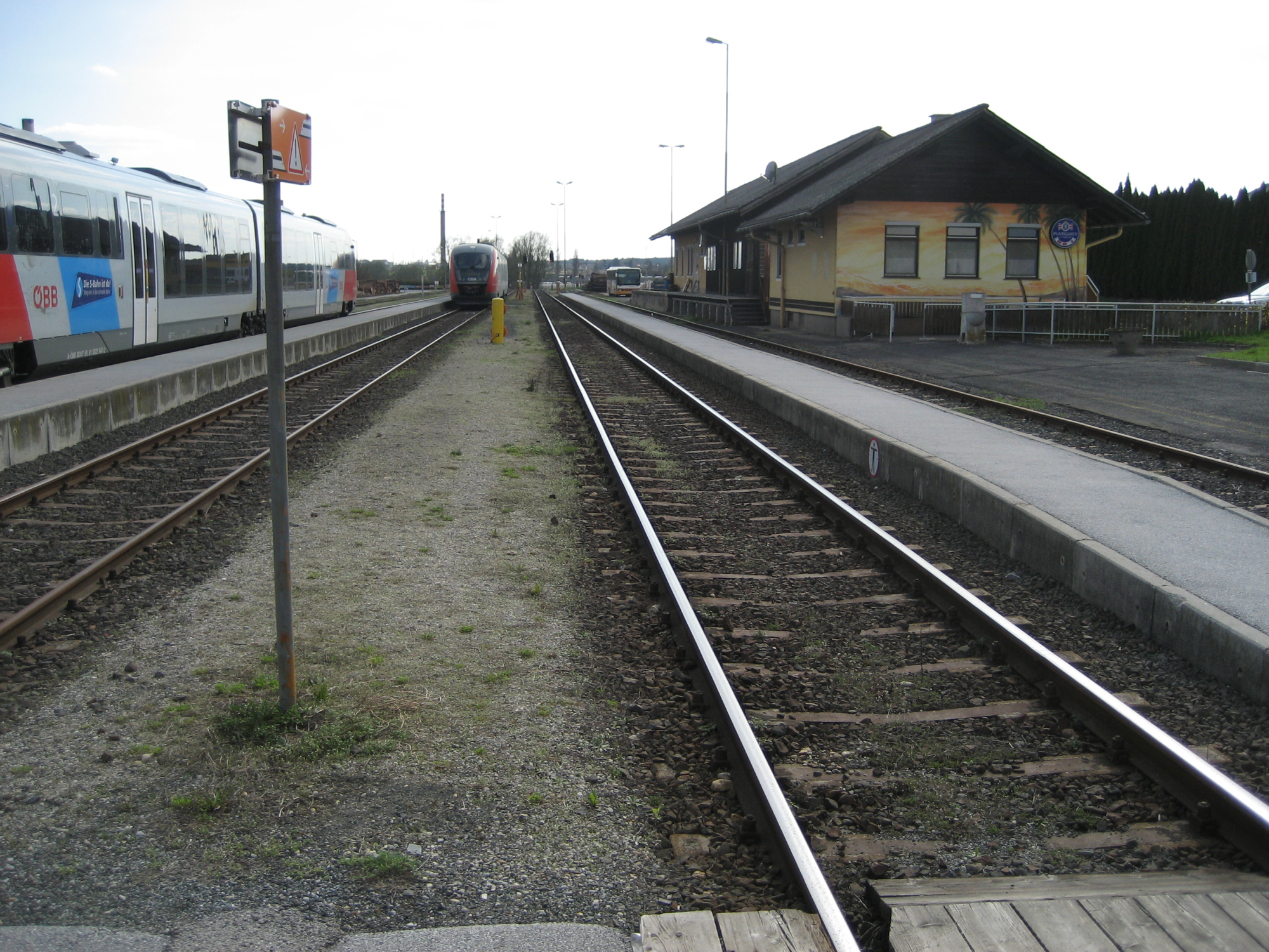 train station Hartberg in Styria